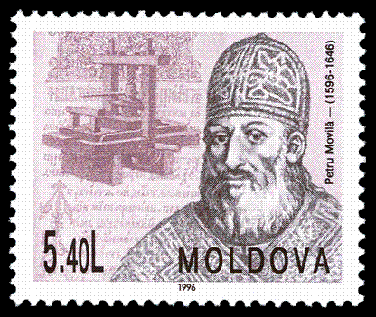 Stamp of Moldova; Peter Mogila